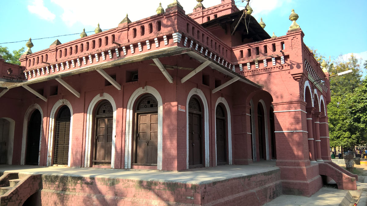 Hazi mohammad Mohsin Bhaban